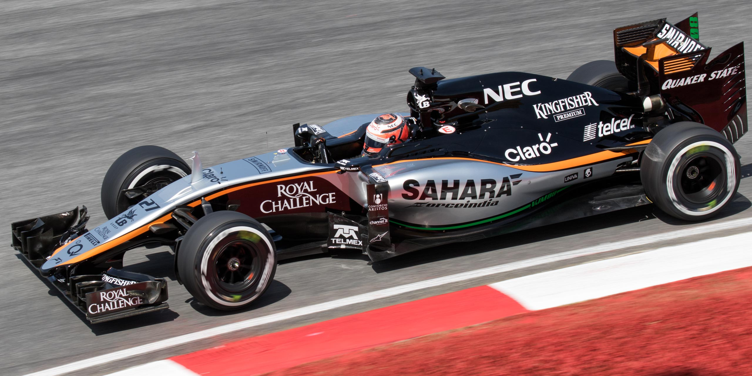 Formula One 2015 Rd.2 Malaysian GP: Nico Hülkenberg (Force India)